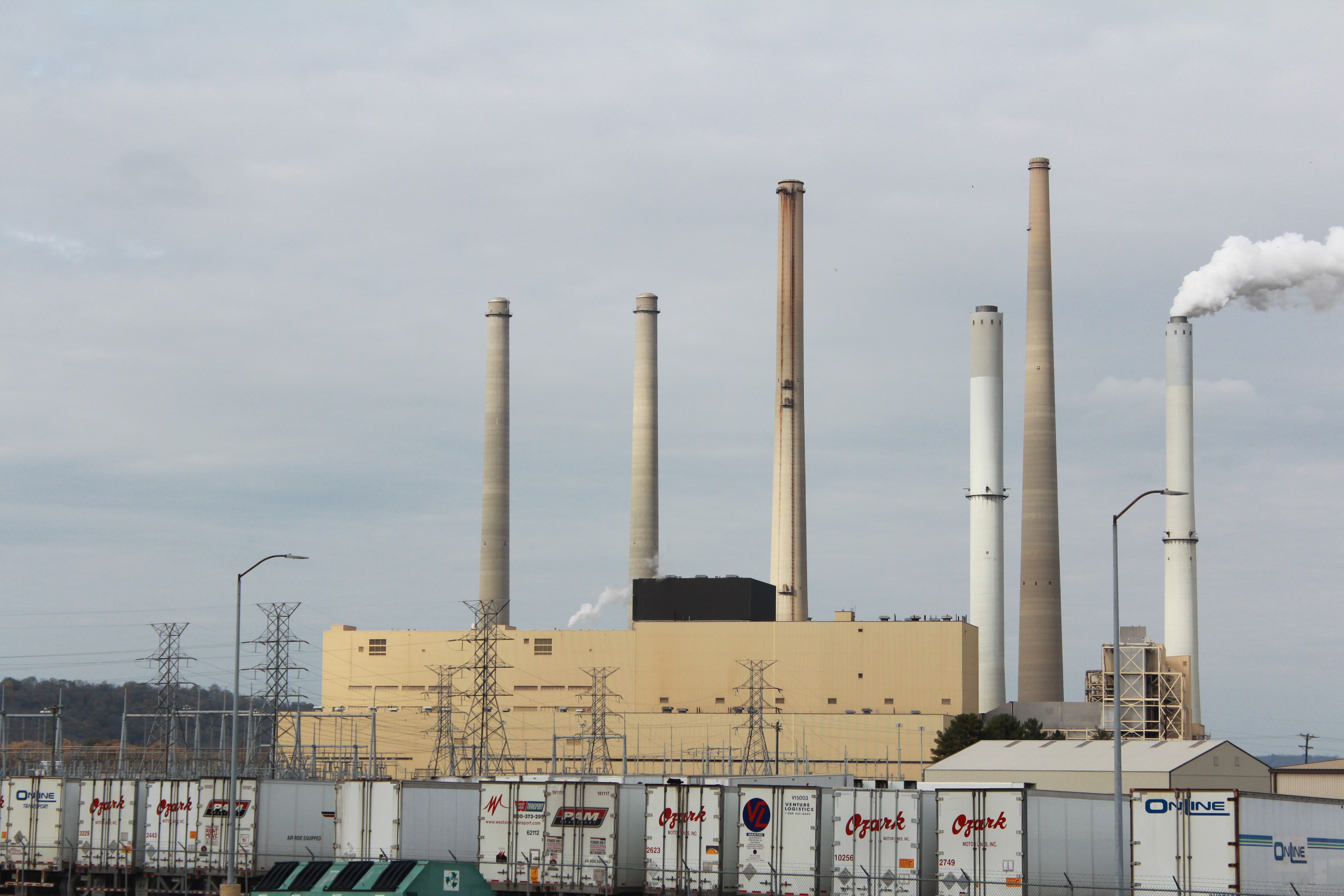 This is the Hugh L. Spurlock Generating Station, a coal-fired power plant in Mason County, Kentucky.